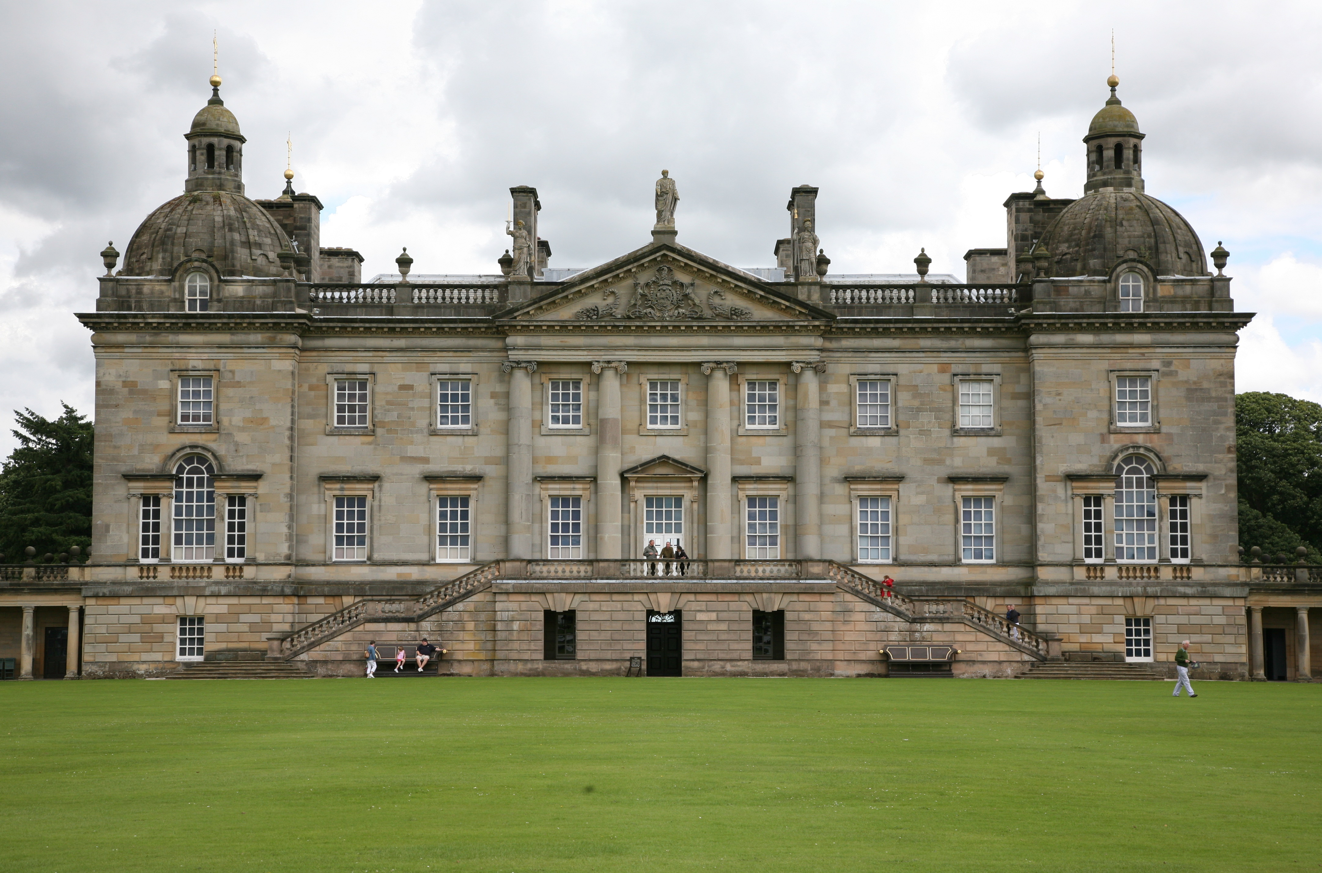 Houghton Hall in Norfolk is an important Palladian building. The architects were Colen Campbell, who began the building, James Gibbs, who added the domes, and William Kent. The west front.